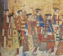 Detail from procession of Garter Knights in the Black Book of the Garter, c.1535, Royal Collection, Windsor Castle.[1] Henry Courtenay, 1st Marquess of Exeter (second from the left) and the knights of the Order of the Garter.